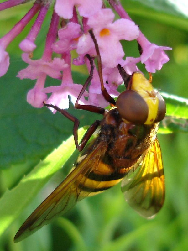 A Volucella zonaria